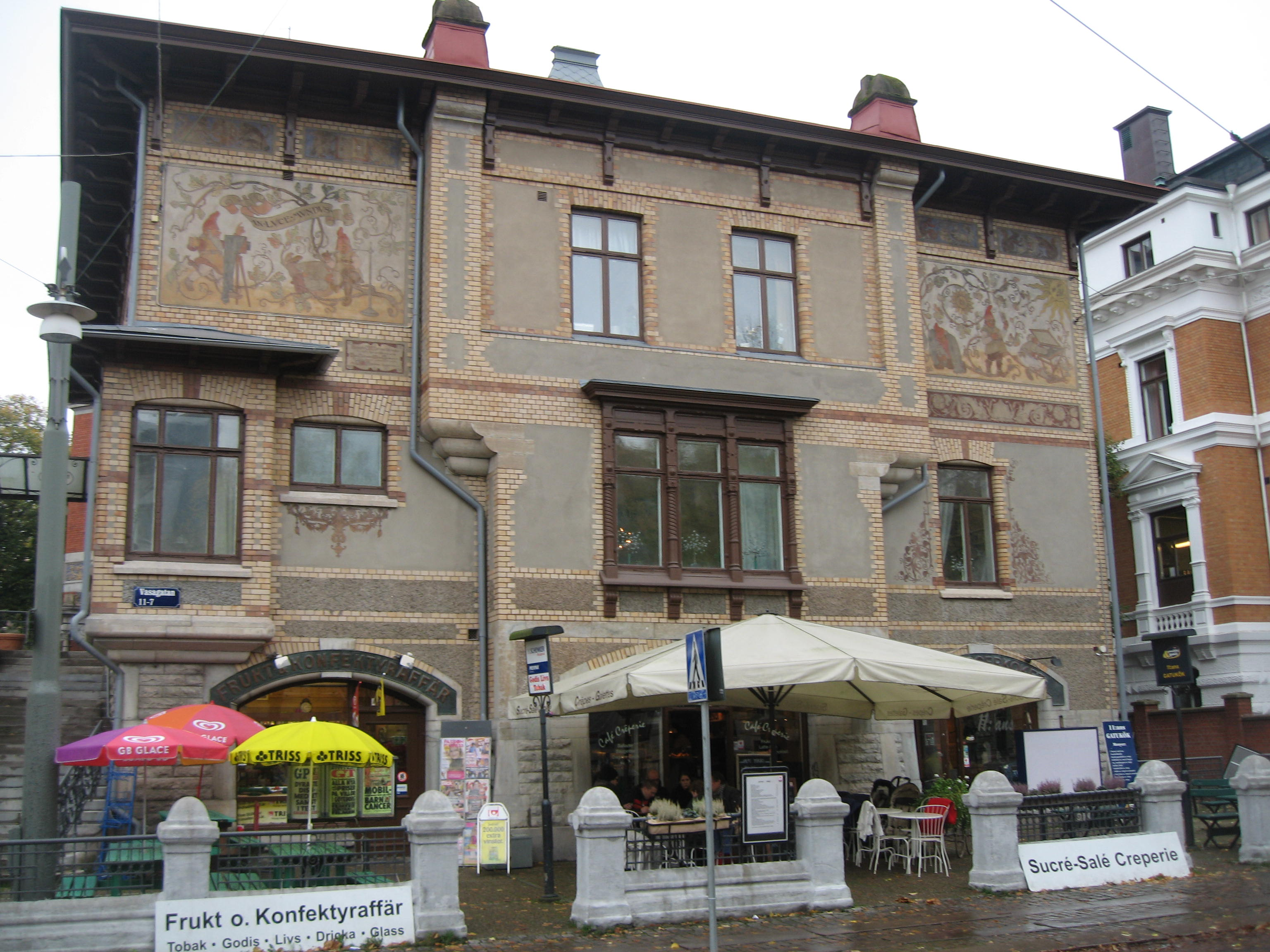 Tomtehuset in Göteborg, facade facing Vasagatan, shows facade paintings of Gnomes and other creatures. Architect Hans Hedlund portrayed the creatures with different occupations to symbolize the different areas his family were professionally involved in.